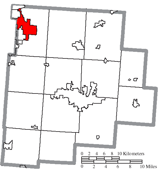 Map of the municipal and township boundaries of Fairfield County, Ohio, United States, as of the 2000 census, with the location of the city of Pickerington highlighted. Township borders are shown only in unincorporated areas in order to differentiate incorporated and unincorporated areas more clearly.